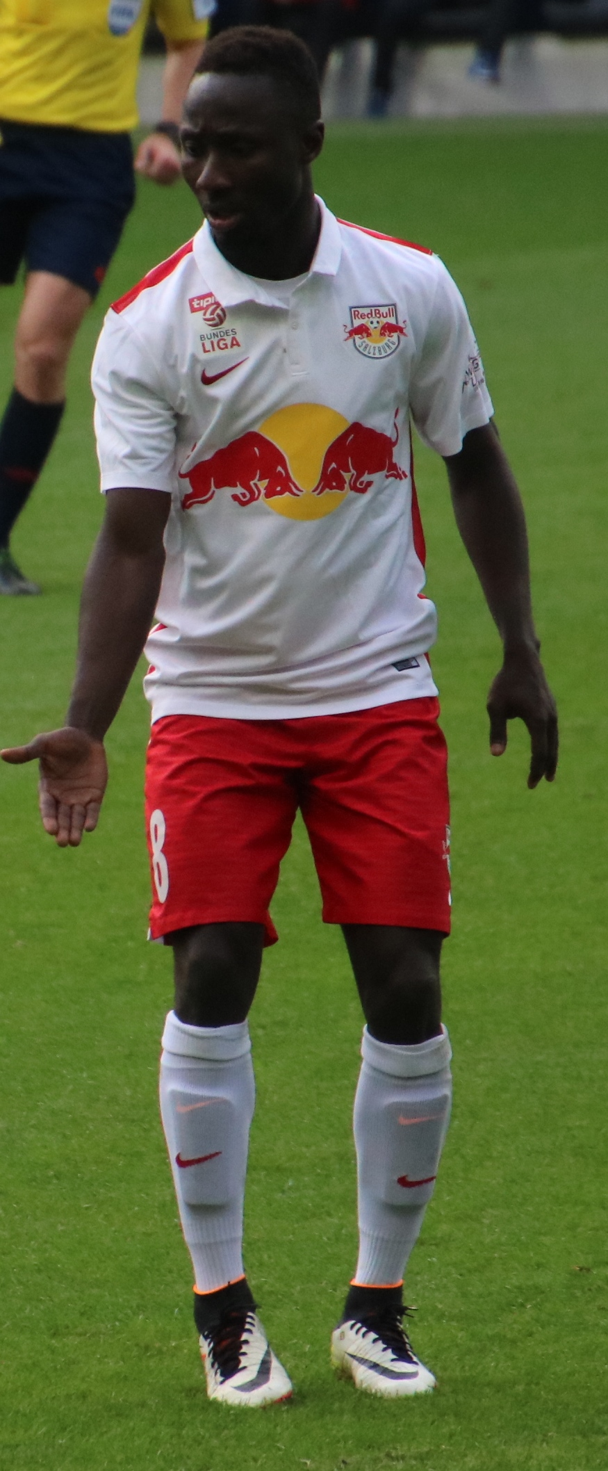 Austrian Bundesliga match